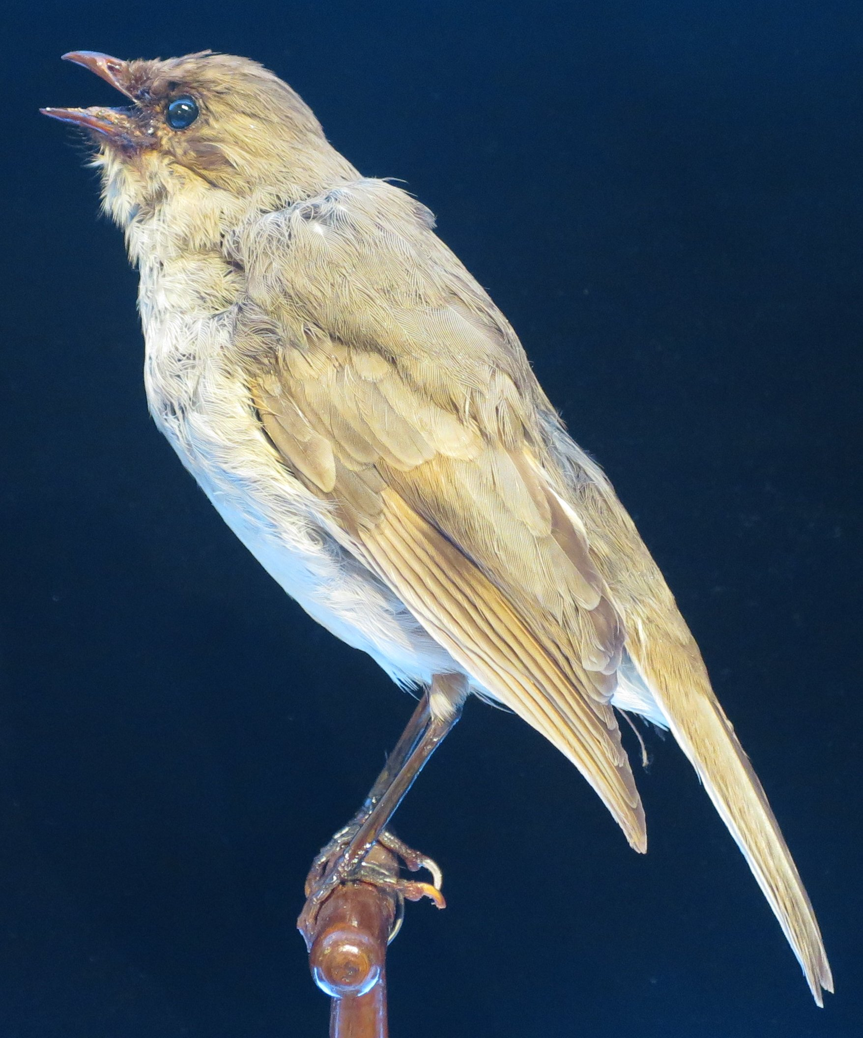 Phaeornis myadestina Stejn (kamau from Kauai), Bishop Museum, Honolulu